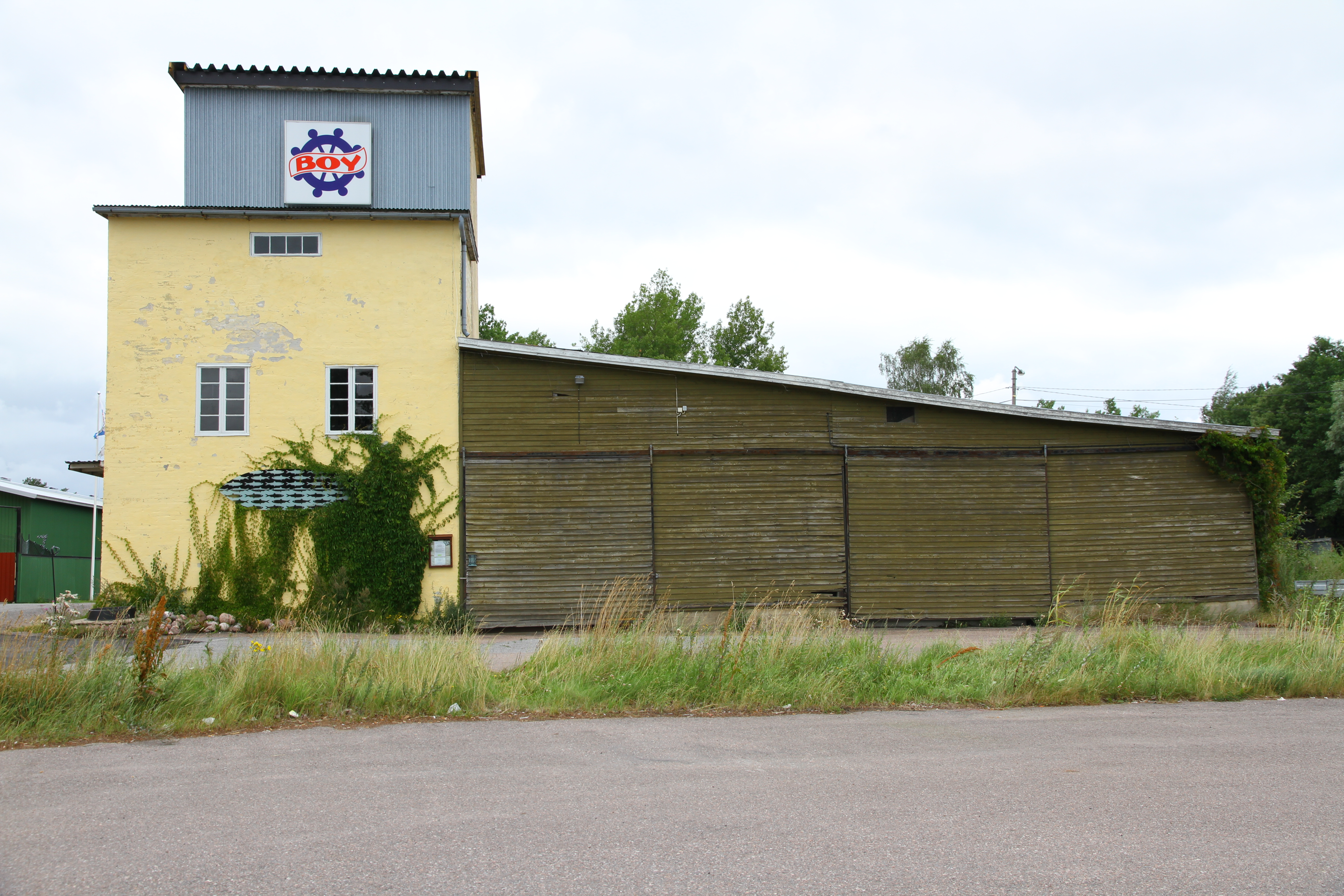 Röölä Naantali, Finland.